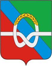 Babaevo rayon (Vologda oblast), coat of arms